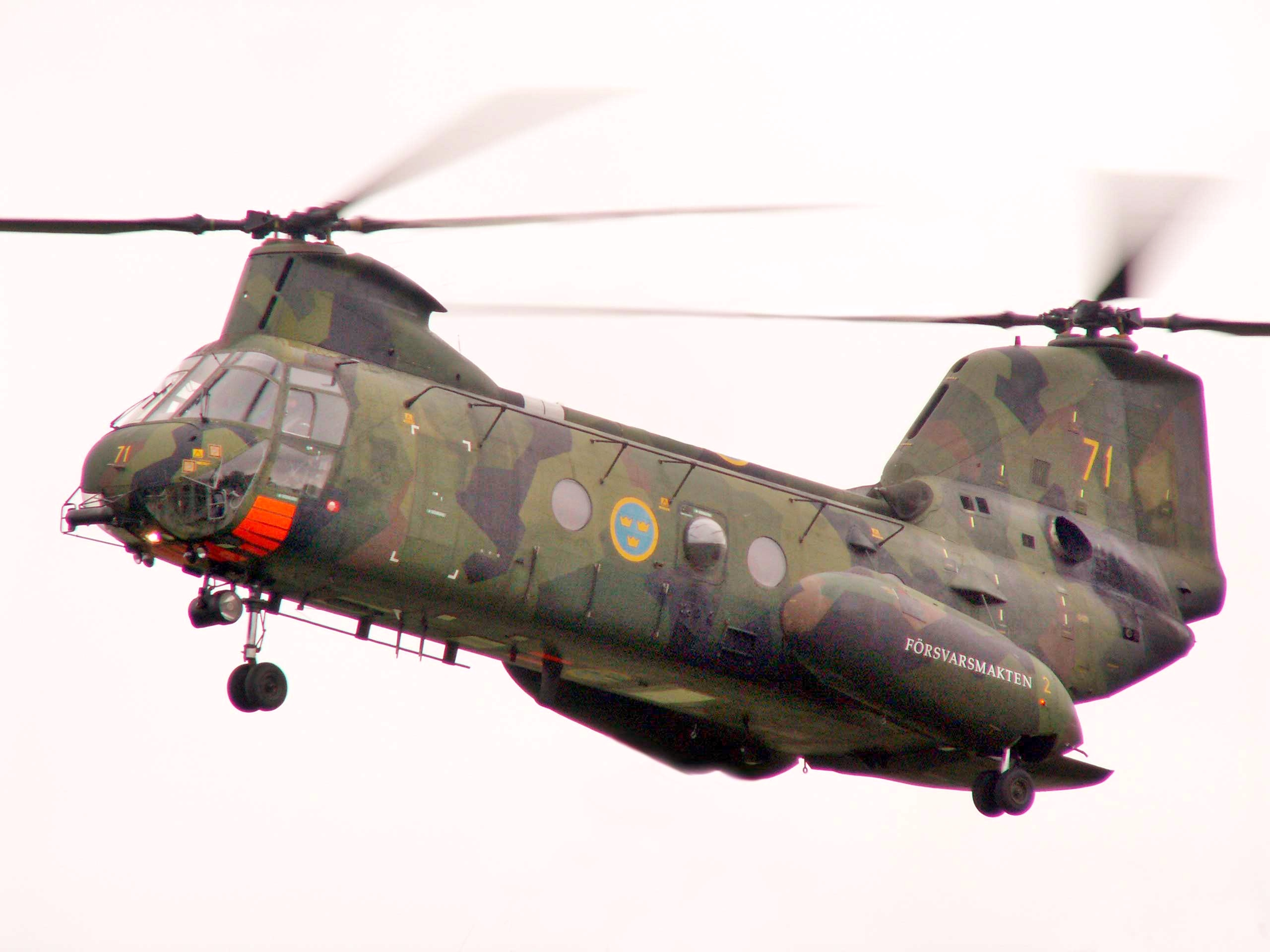 Swedish helicopter HKP 4 during "Swedish Battle Camp" in Stockholm.